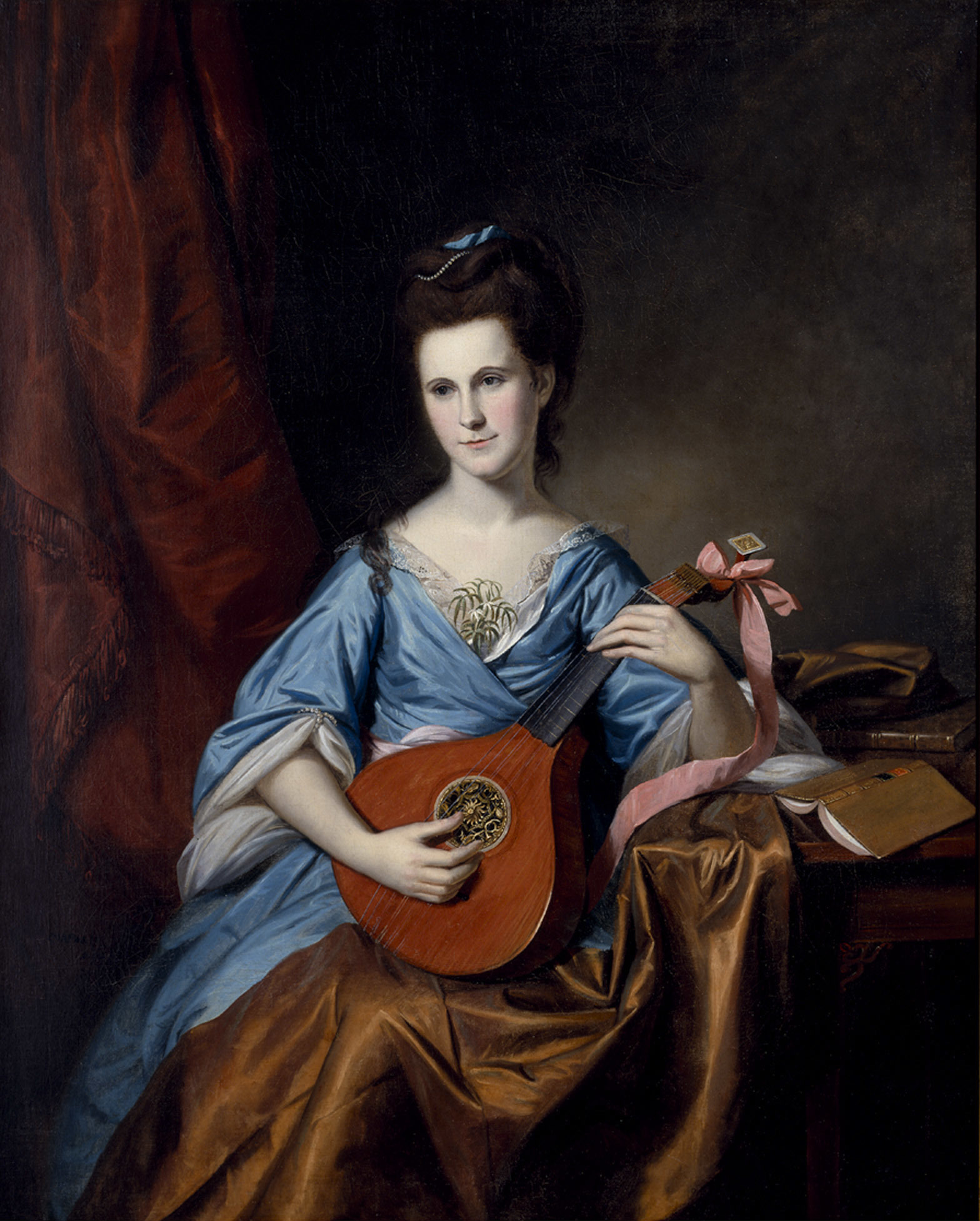 Charles Willson Peale Title: Julia Stockton Rush (Mrs. Benjamin Rush) Category: Paintings Creator (Role): Charles Willson Peale (Artist) Place of Origin: Philadelphia, Philadelphia, Pennsylvania, Mid-Atlantic, United States, North America Date: 1776 Materials: Oil paint; Canvas Techniques: Painted Museum Object Number: 1960.0392 A